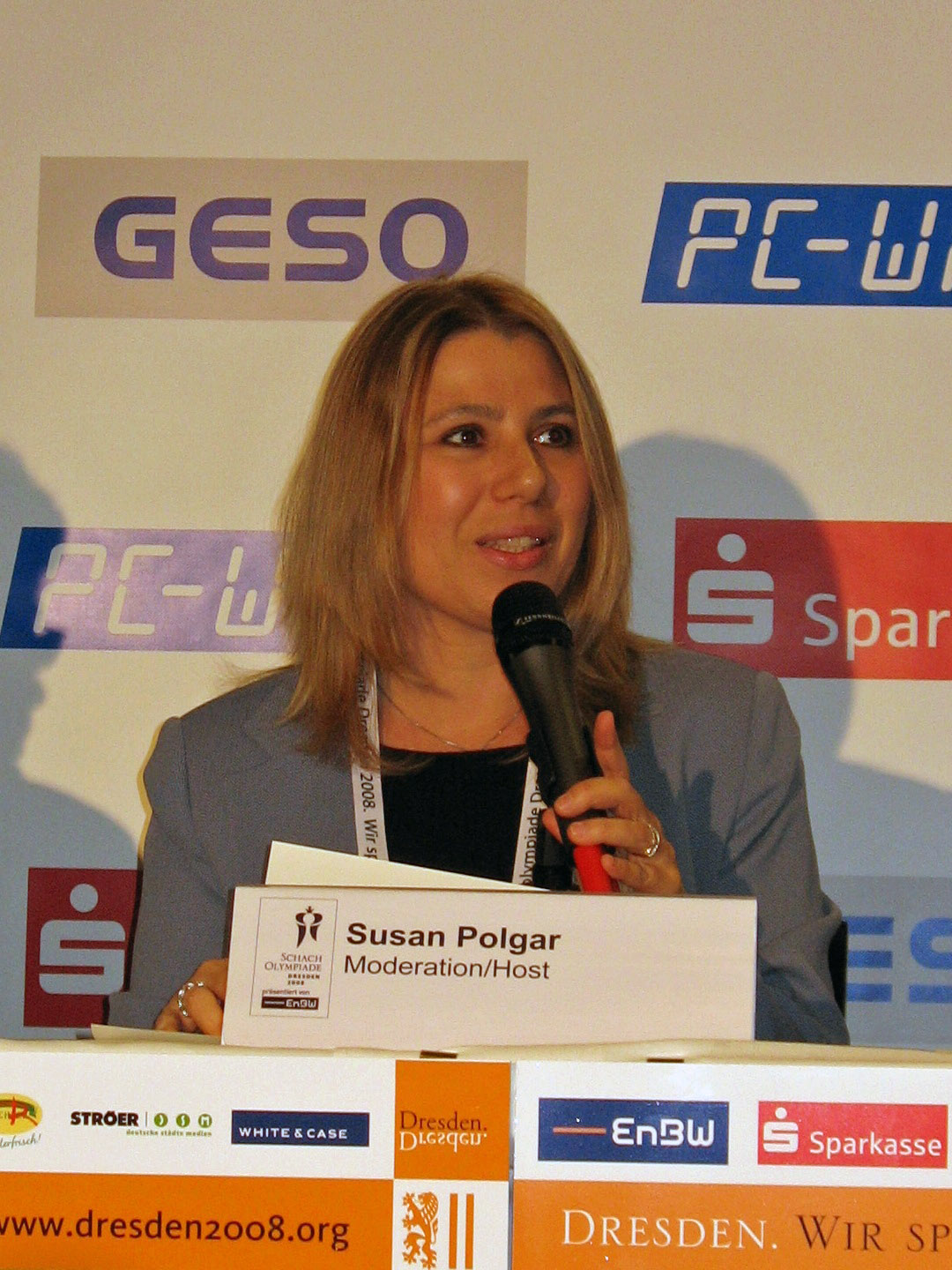 Susan Polgar, hosting a press conference on day 4 of the 38th Chess Olympiad in Dresden, Germany